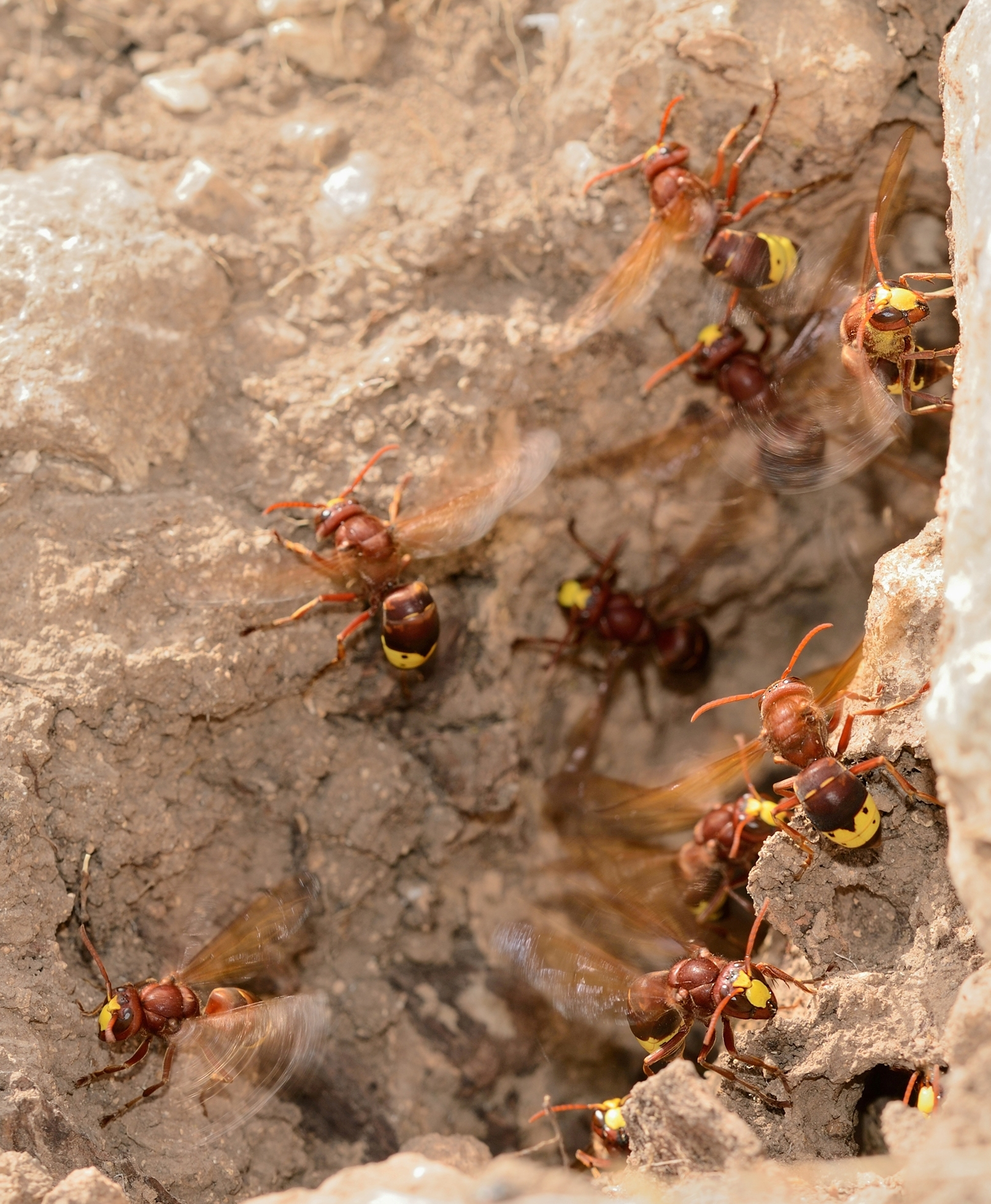 Oriental wasp (Vespa orientalis) workers fanning their wings to cool down the nest on a hot autumn midday. Taken at Nahal Neder, Mount Carmel, Israel, September 24, 2014.